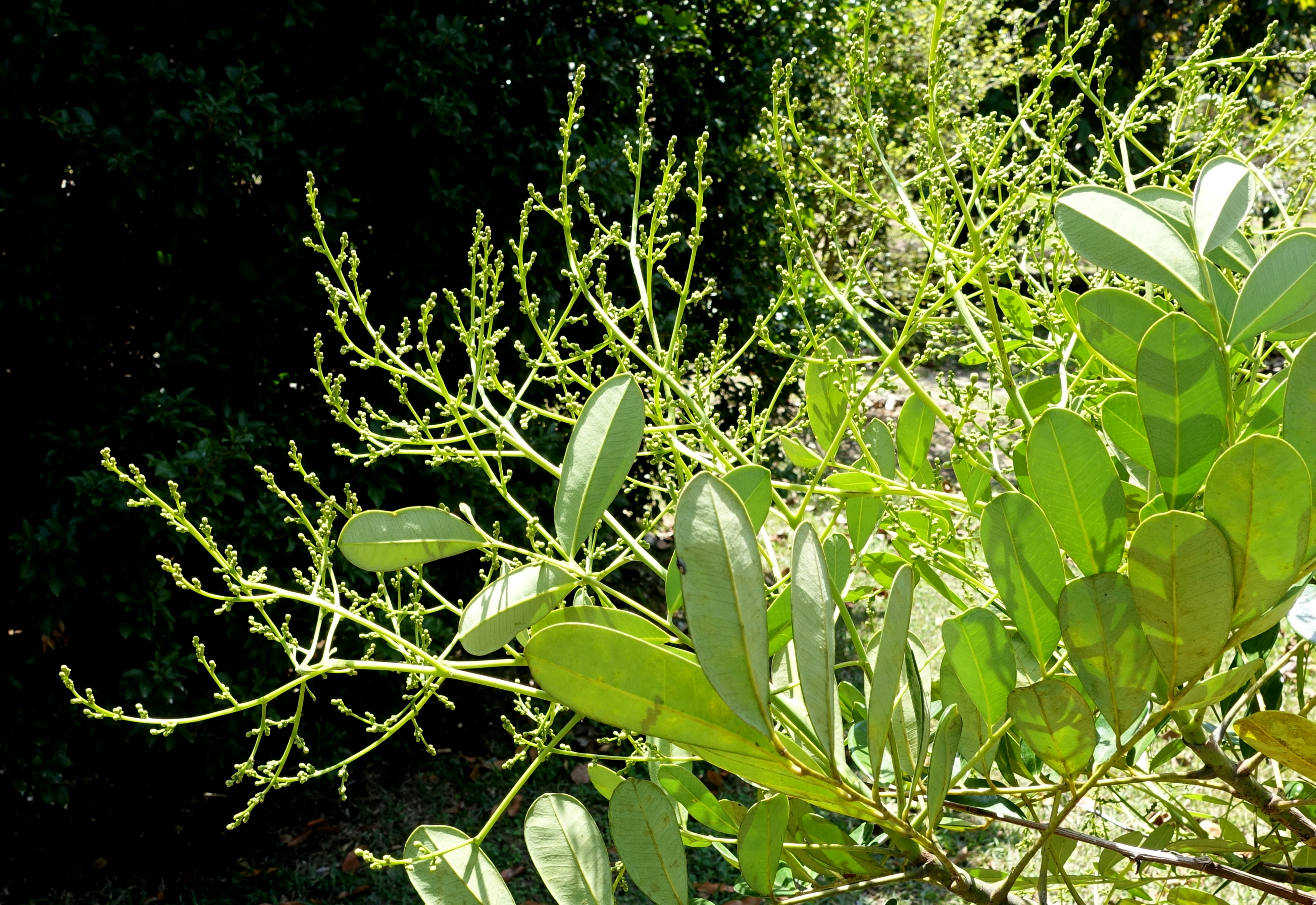 Plant specimen in the Fruit and Spice Park - Homestead, Florida, USA.